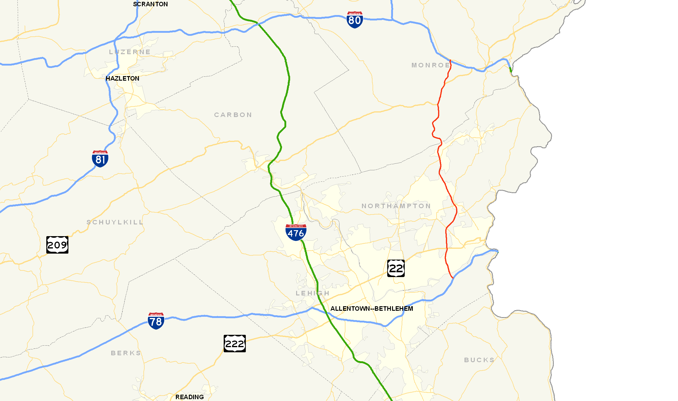 Map of Pennsylvania Route 33